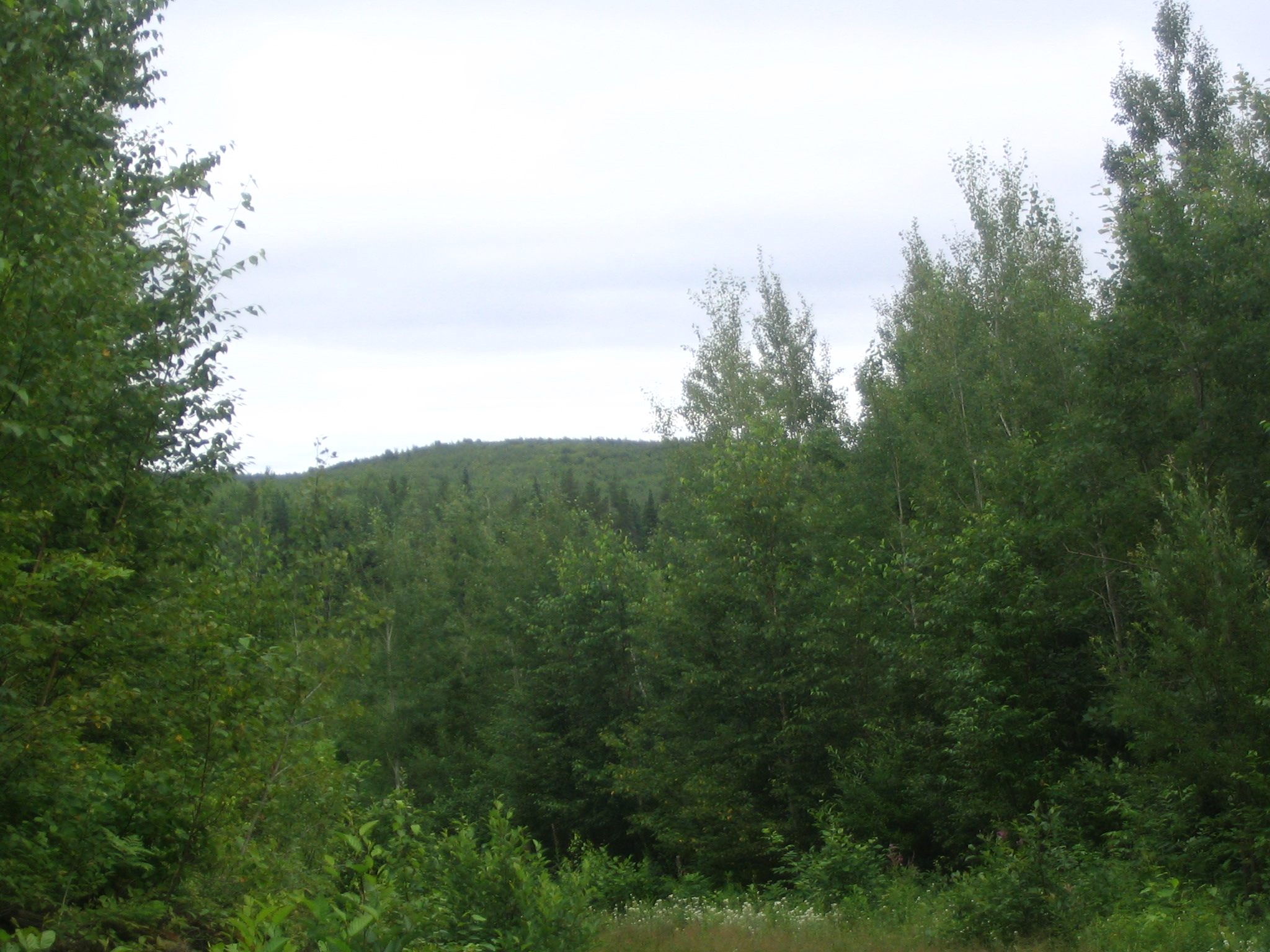 A hill in Notre-Dame-des-Érables, New Brunswick, Canada.